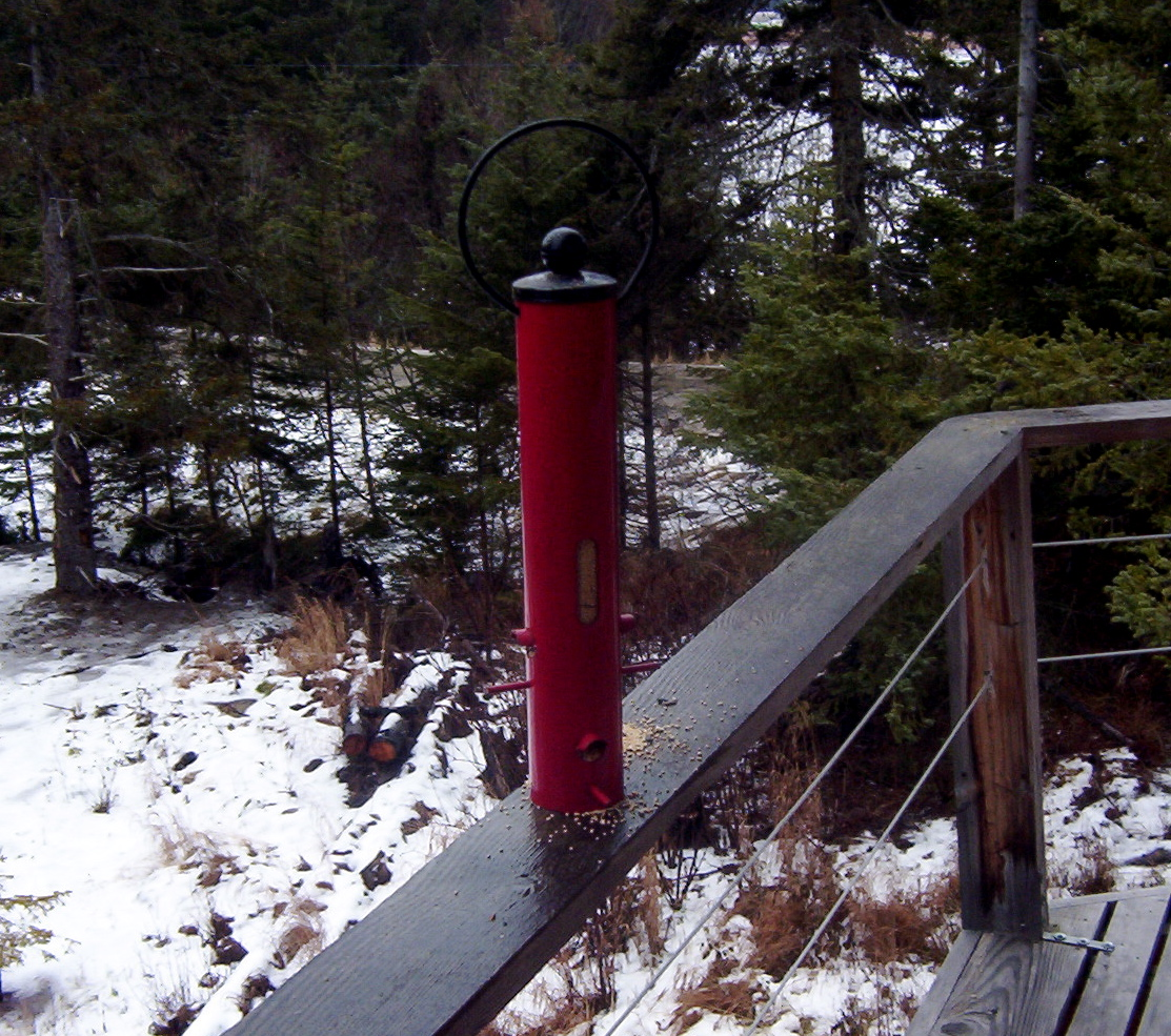 Iron silo, squirrel proof, bear resistant bird feeder.